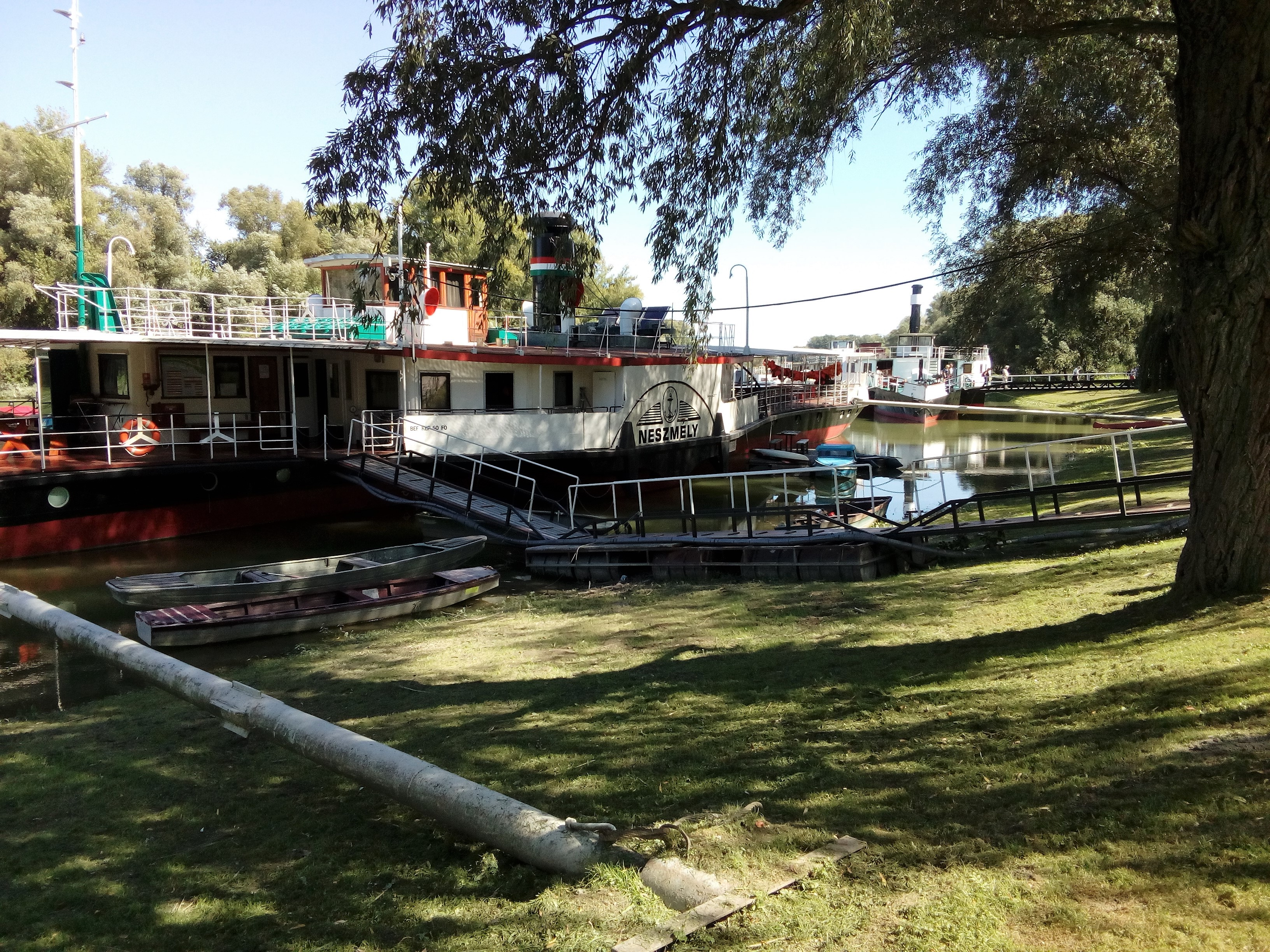 River ship exhibition in Neszmély